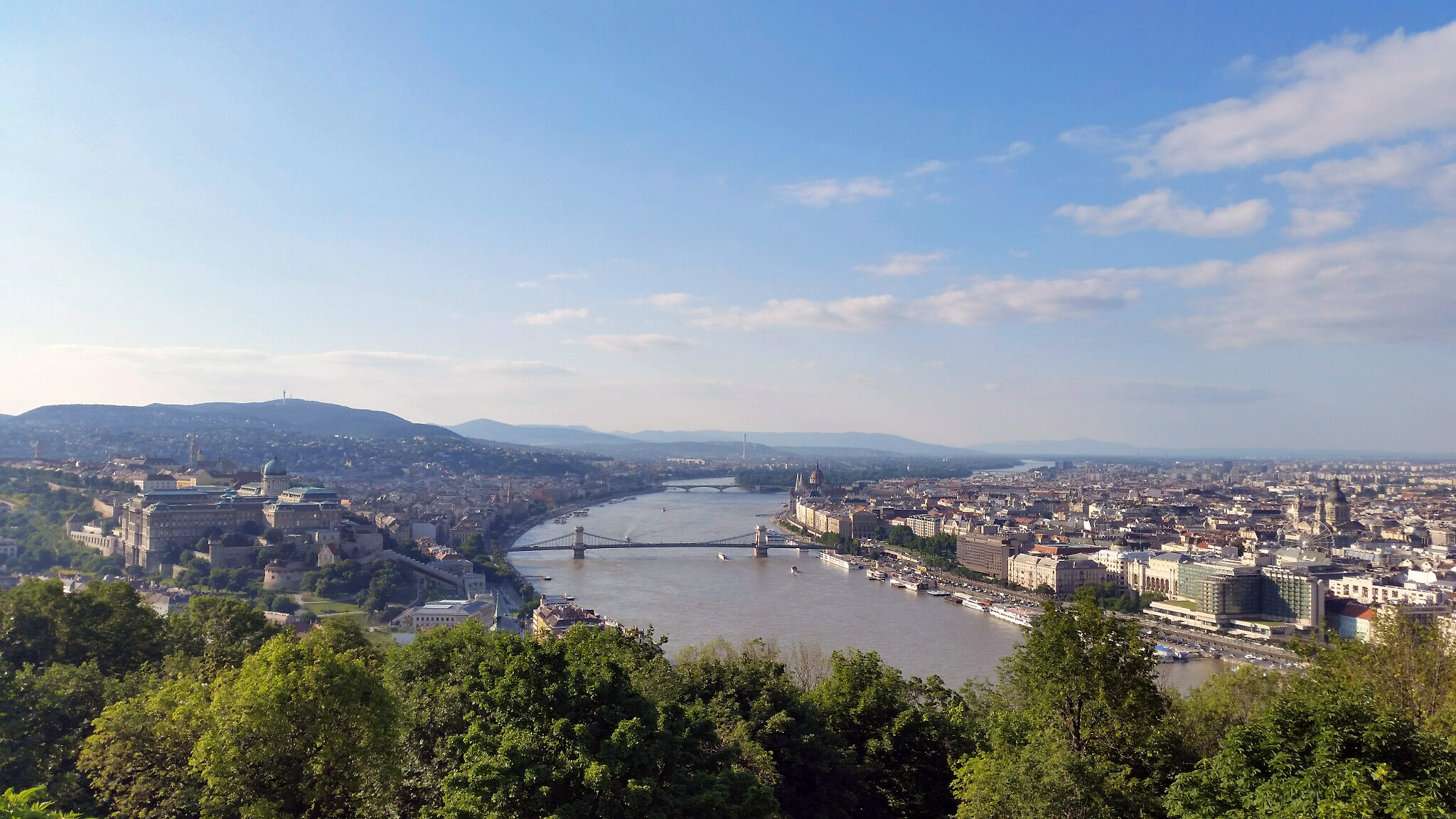 Buda and Pest separated by the Danube river as seen from Gellért Hill.